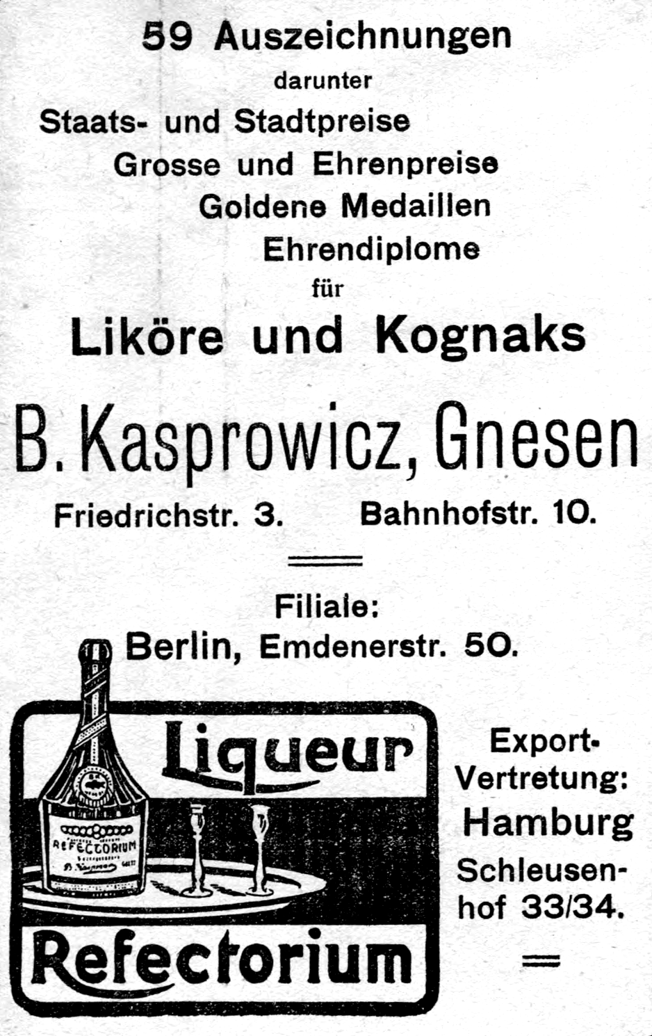 Advertisement of liqueurs and cognacs from Bolesław Kasprowicz's factory.